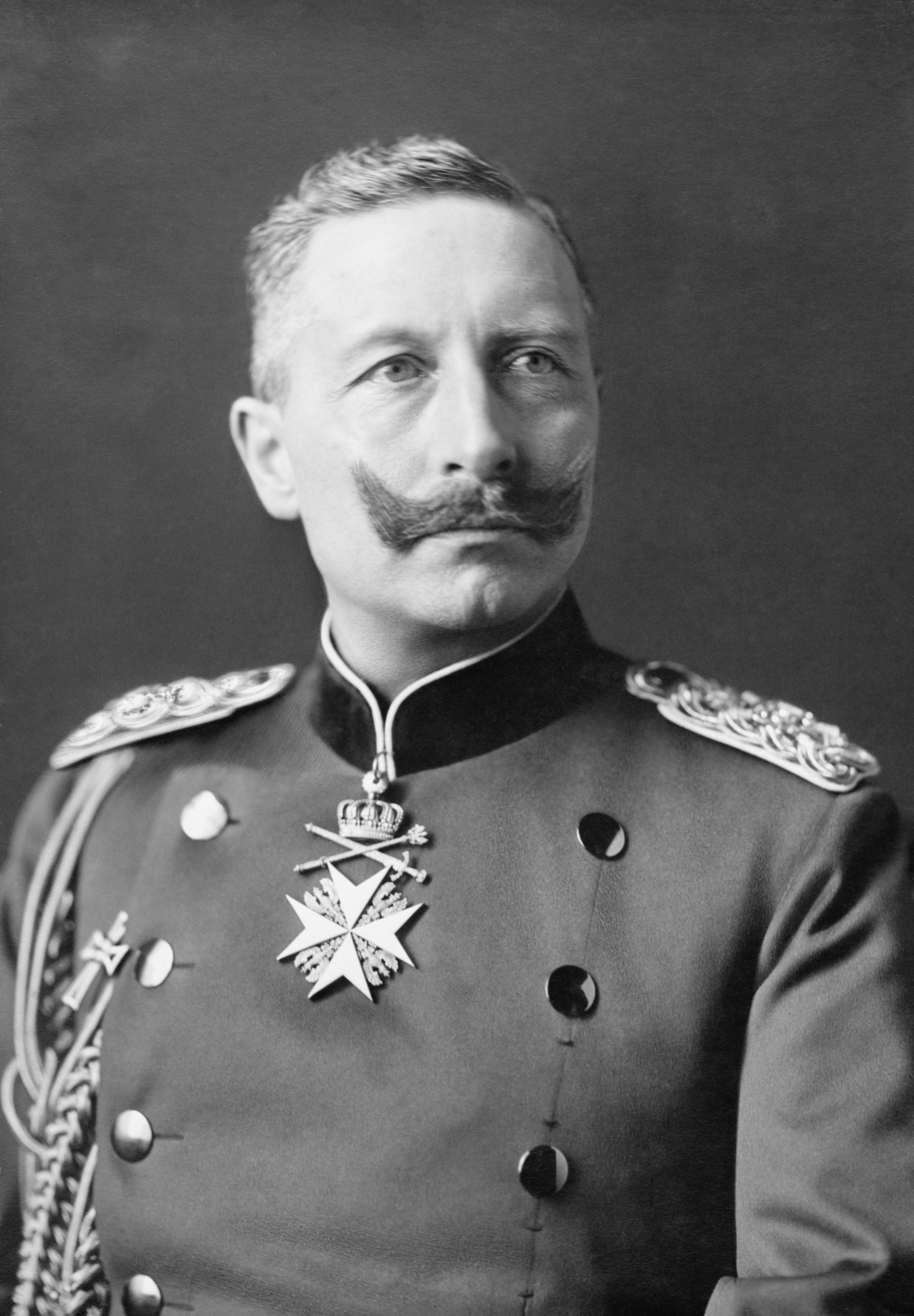 Head and shoulders portrait of Kaiser Wilhelm II by Court Photographer T. H. Voigt of Frankfurt, 1902.